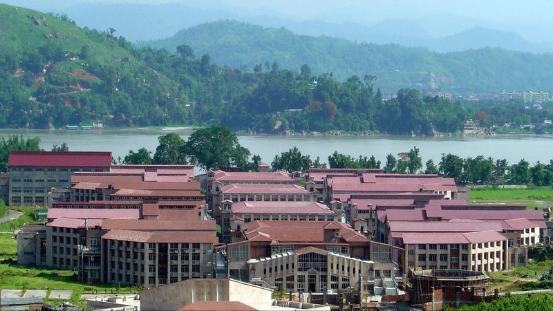 Academic Complex of IIT Guwahati, including all the departments and centres